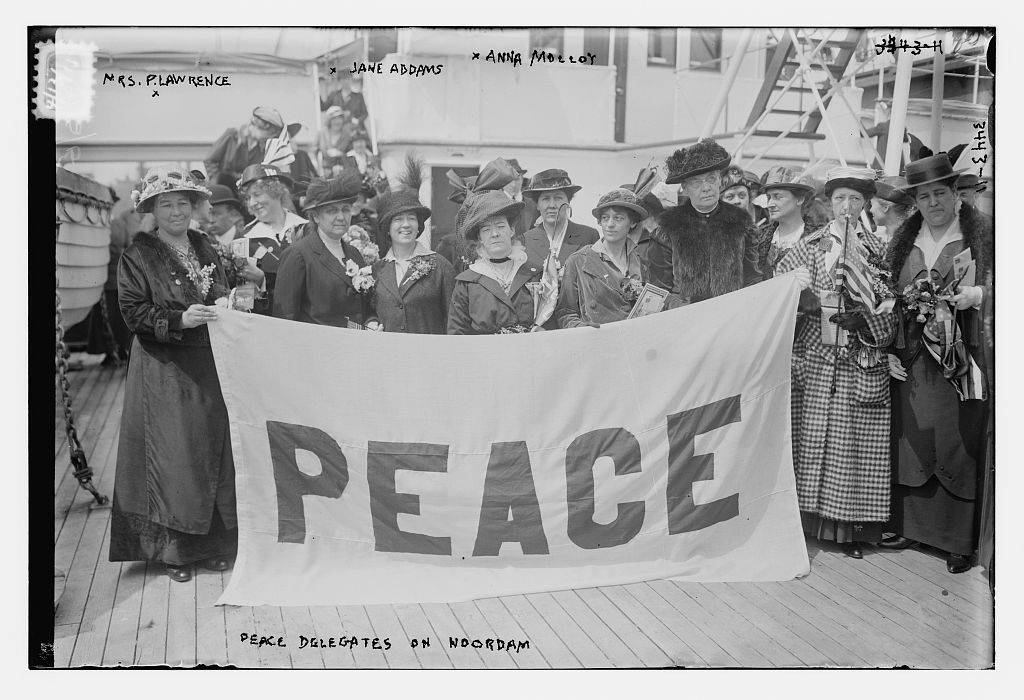 Photograph shows (British &) American delegates to the International Congress of Women which was held at the Hague, the Netherlands in 1915. The delegates include: British feminist and peace activist Emmeline Pethick-Lawrence (1867-1954), social activist and writer Jane Addams (1860-1935), and Annie E. Malloy, president of the Boston Telephone Operators Union. To the right of Malloy may be labor journalist and activist Mary Heaton Vorse (1874-1966) and the woman wearing a hat on the far right may be Lillian Kohlhamer of Chicago. (Source: Flickr Commons project, 2012)